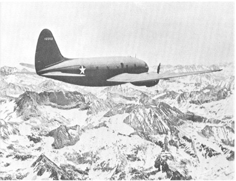 Public domain image of a C-46 Commando from Army Air Forces In World War II, Volume 6: Men and Planes, by Craven and Cate. USAAF official history of WWII. Public domain from USAF website